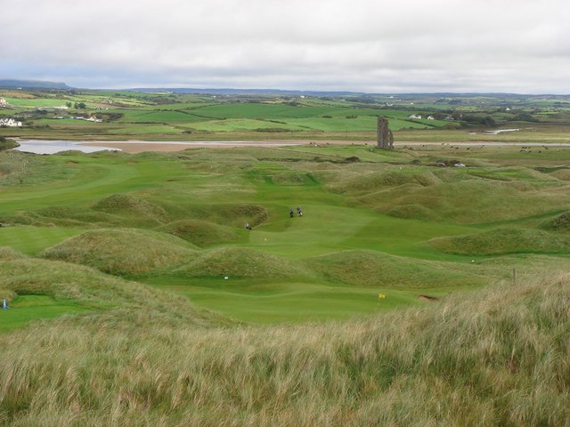 Lahinch Golf Club Lahinch Golf Clun - taken from the 9th tee box. Photo includes the back nine of the Old (Championship) and Castle courses.